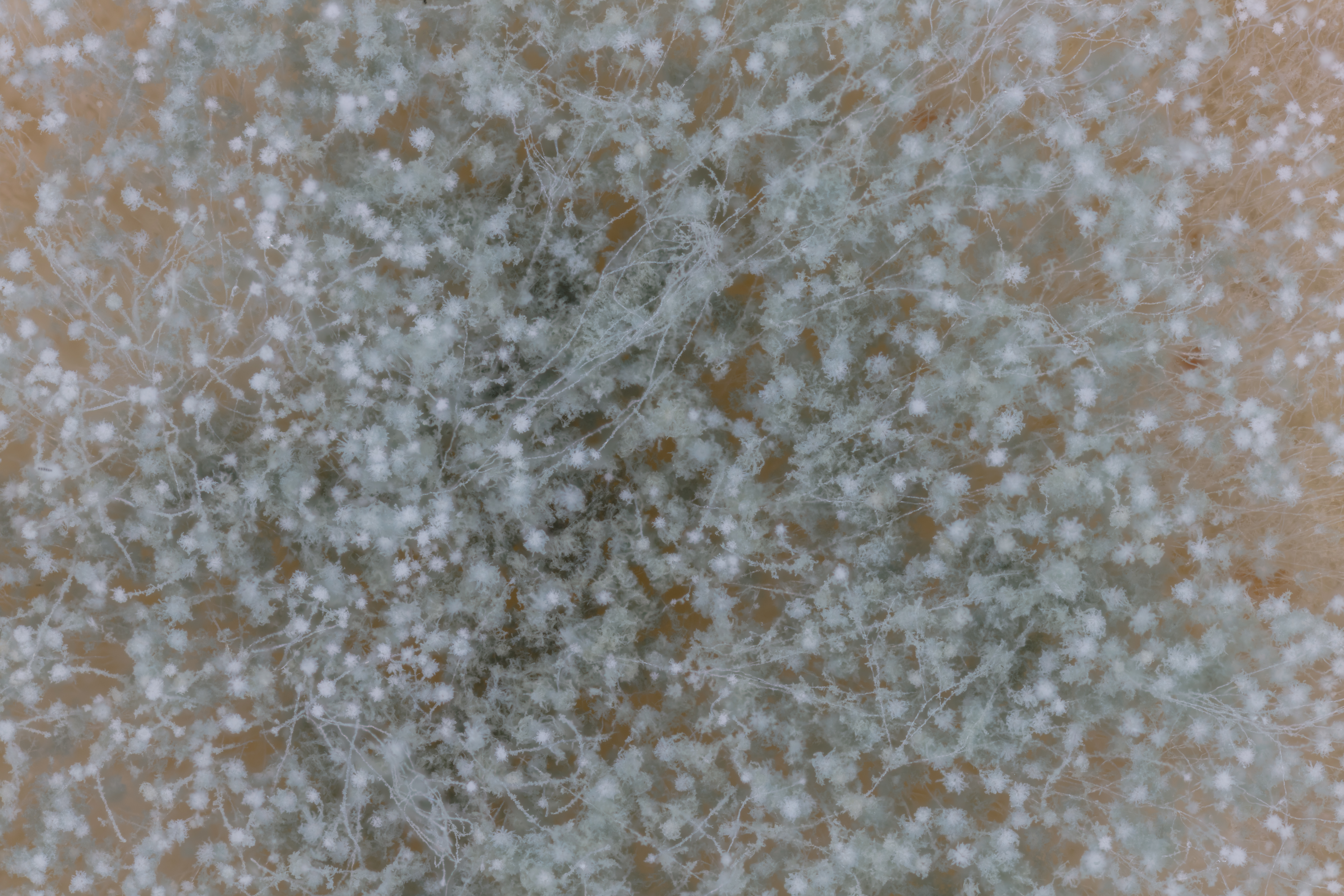 Mold on rotten food